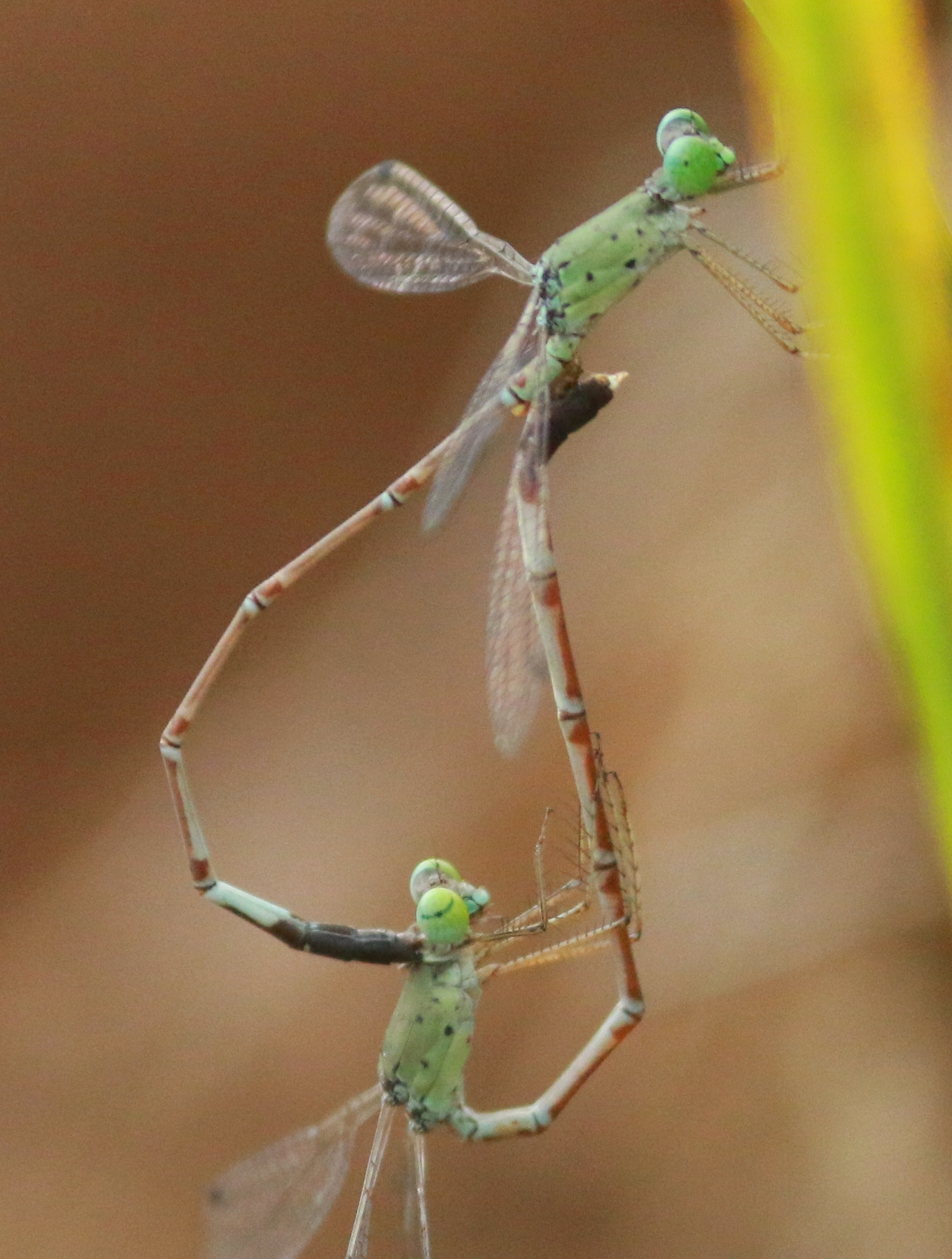 Platylestes platystylus, Emerald-eyed Spread wing